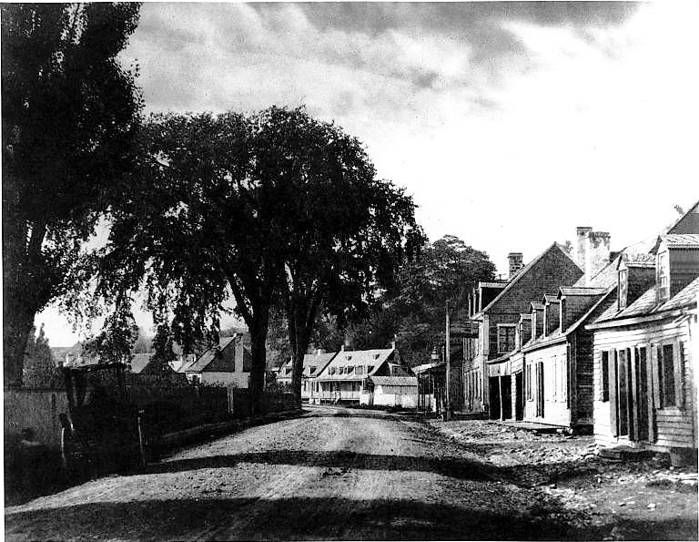 Photograph, Tanneries Village, St. Henry, near Montreal, QC, 1859, Alexander Henderson, Silver salts on paper mounted on paper - Salted paper process - 20.3 x 25.4 cm